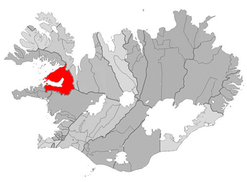 Based on Municipalities of Iceland.png.